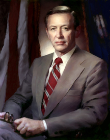 Mr. James W. Plummer, Under Secretary of the Air Force, 1973-1976